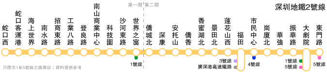 Map of Shenzhen Metro Line 2 in Traditional Chinese